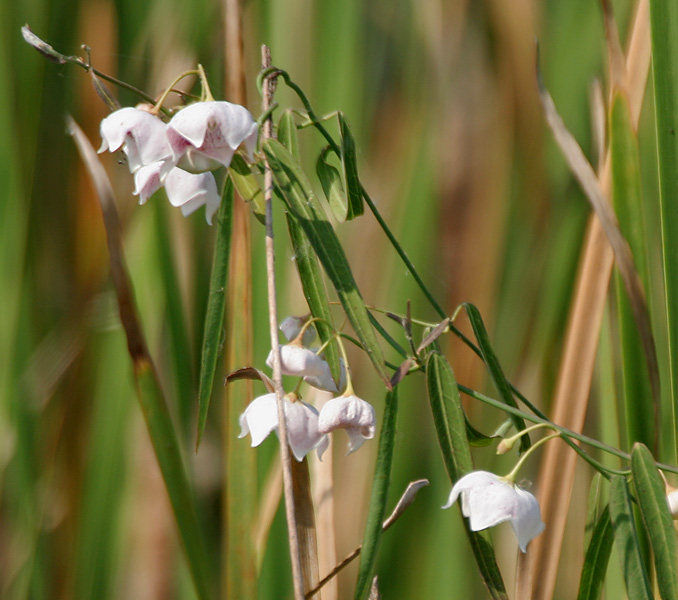 Rosy Milkweed or Dudhani Oxystelma esculentum in Krishna Wildlife Sanctuary, Andhra Pradesh, India.